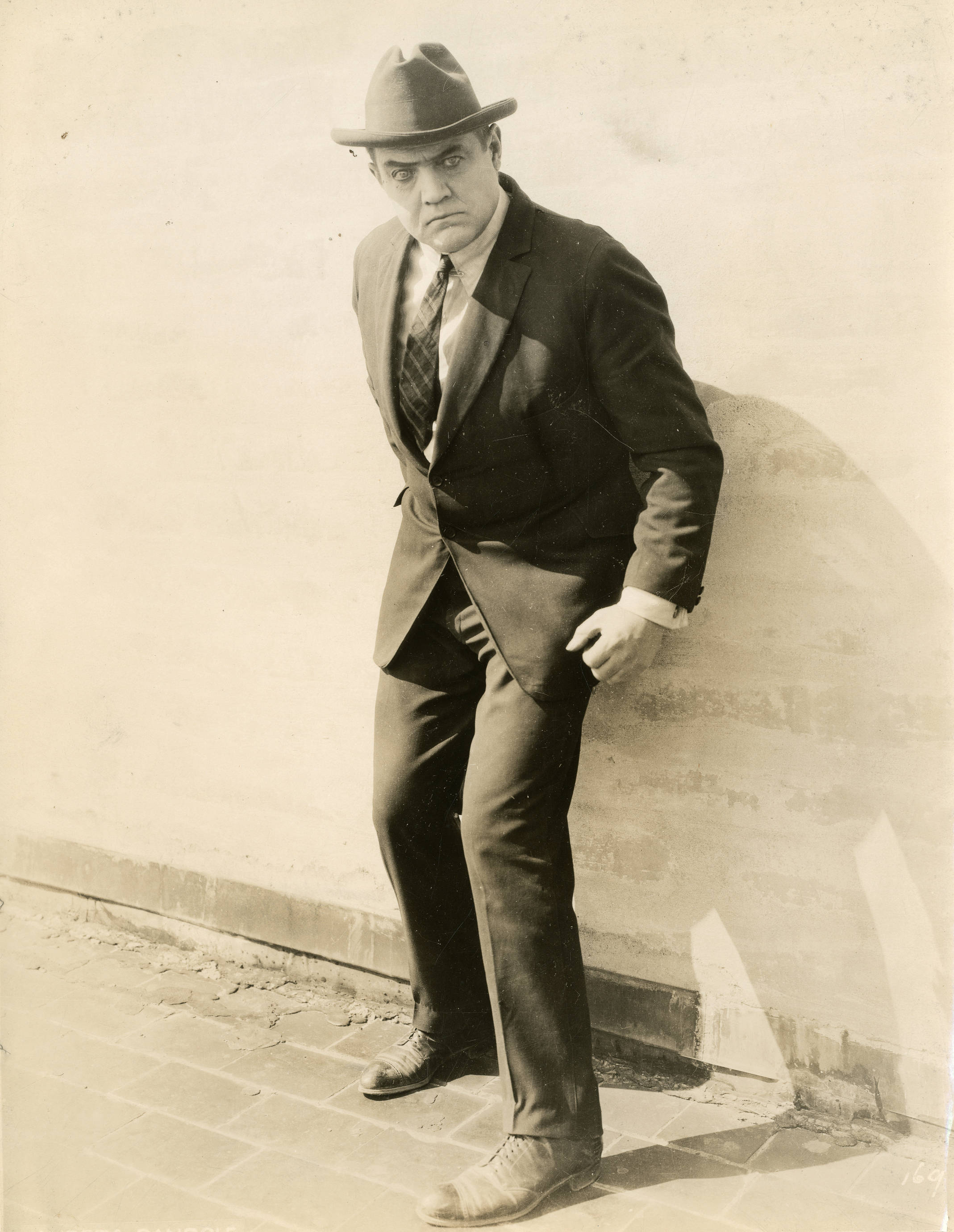 Anders Randolf, film actor Subjects: actors